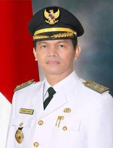 Genius Umar, Deputy Mayor of Pariaman city, West Sumatra period 2013-2018